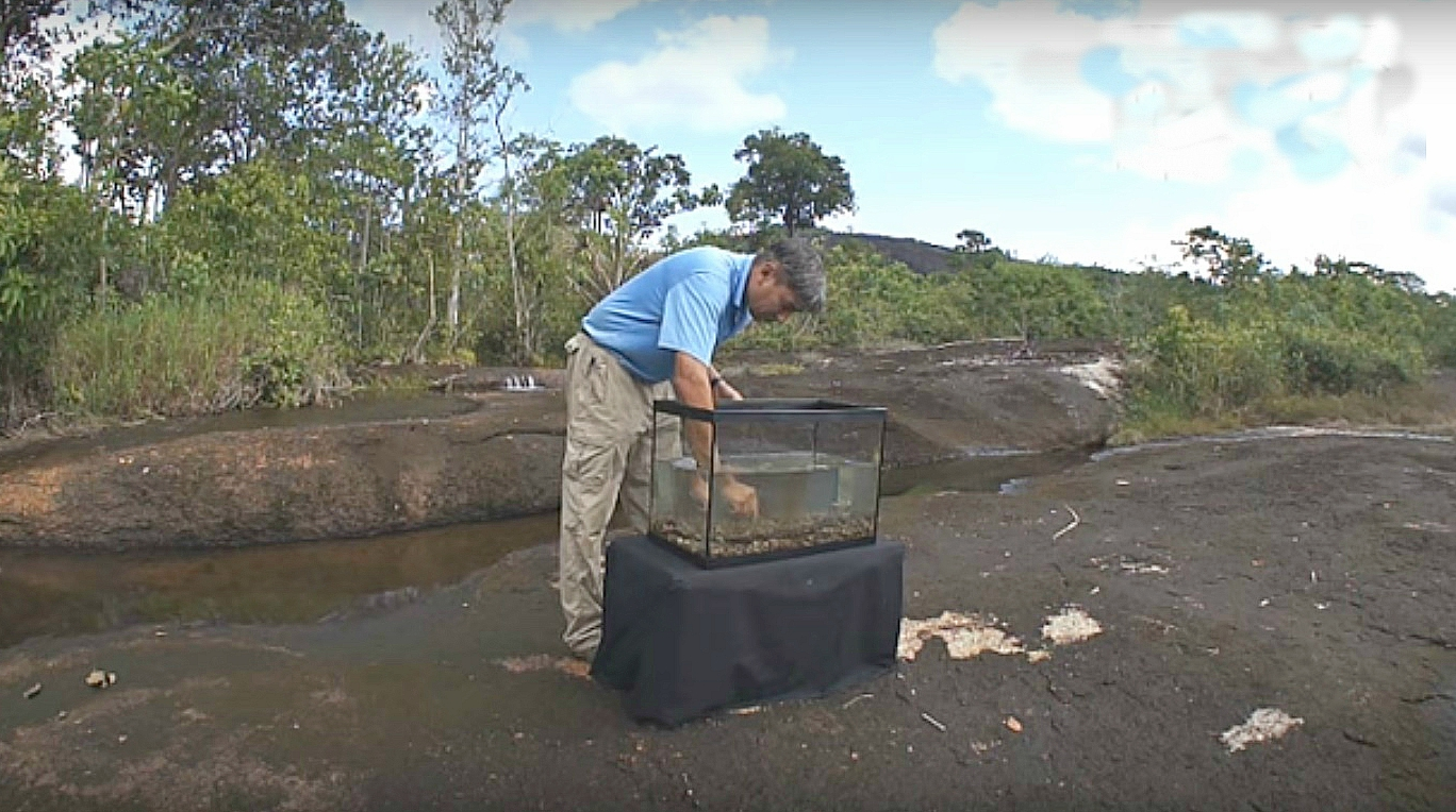 Ivan Mikolji in process of making wild aquarium